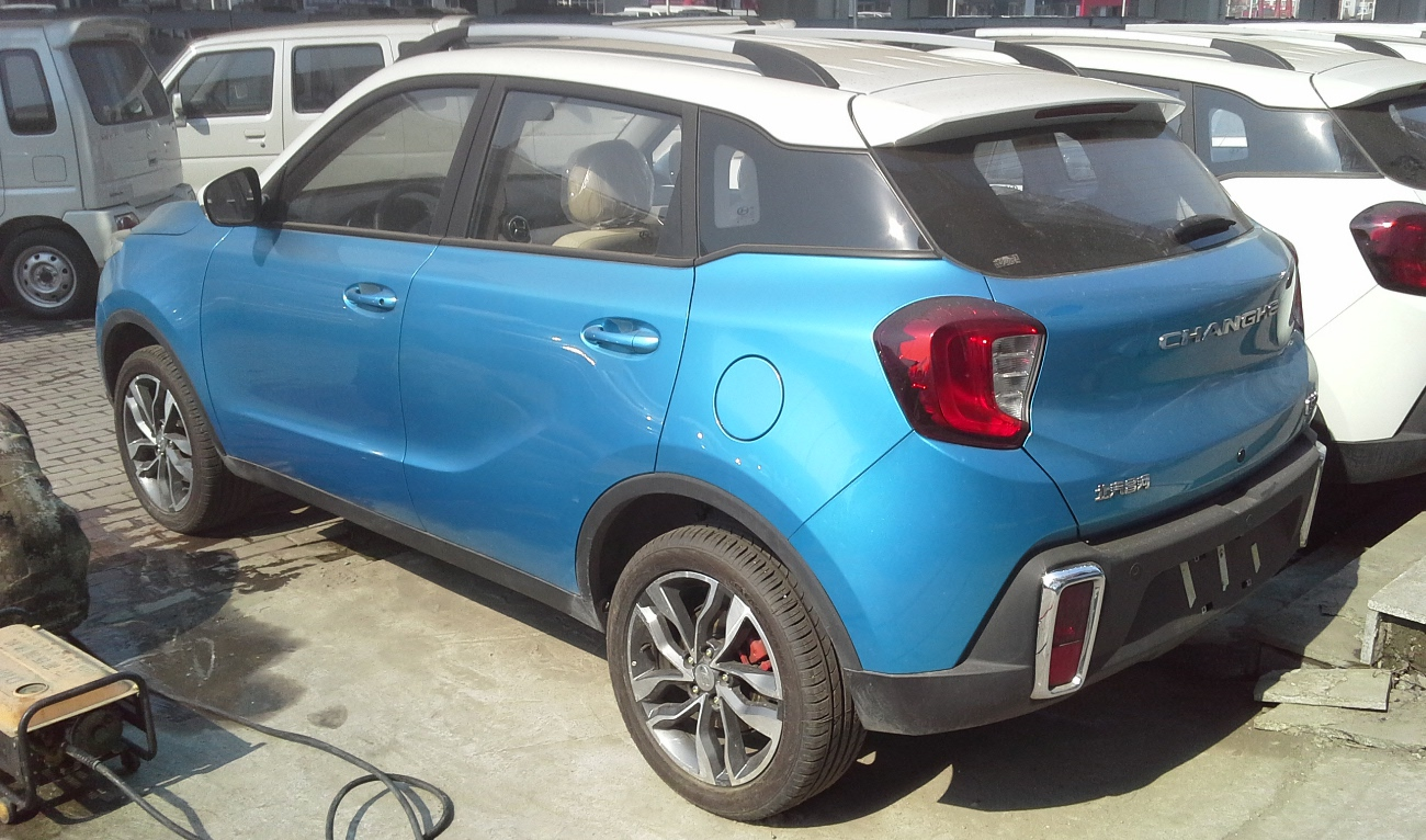 Changhe Q35 photographed in Harbin, Heilongjiang province, China.